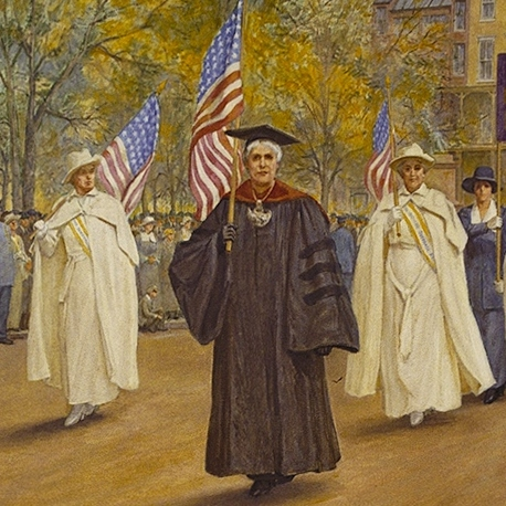 This mural by Allyn Cox at the U.S. Capital building depicts a 1917 suffrage parade in New York. The parade is led Anna Howard Shaw (in black cap and gown) and Carrie Chapman Catt, president of the National American Woman Suffrage Association. Observing at the far left is Jeanette Rankin of Montana, the first woman elected to the House of Representatives, and at the far right, Joseph H. Rainey of South Carolina, the first African American elected to the House of Representatives.